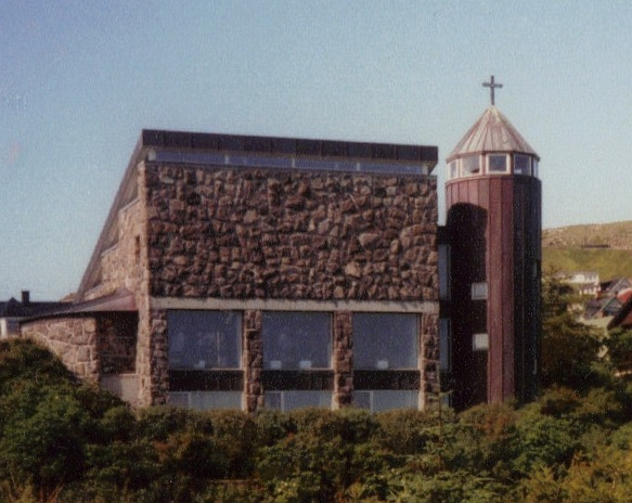 View from the park to the catholic church